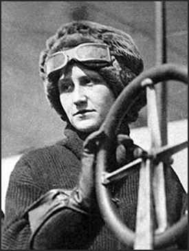 Julia Clark (December 21, 1880 – June 17, 1912) was the third woman to receive a pilot's license say 1912 for the pic